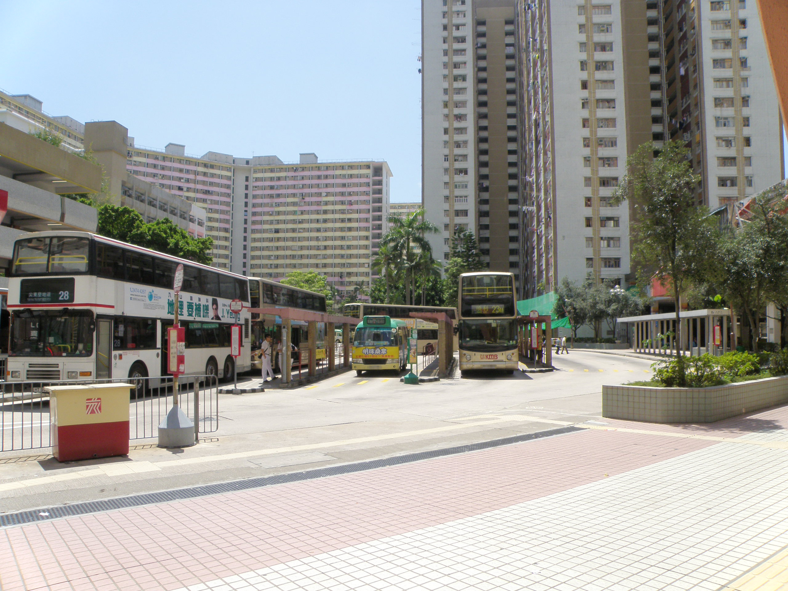 Lok Wah Bus Terminus in Ngau Tau Kok, Hong Kong.